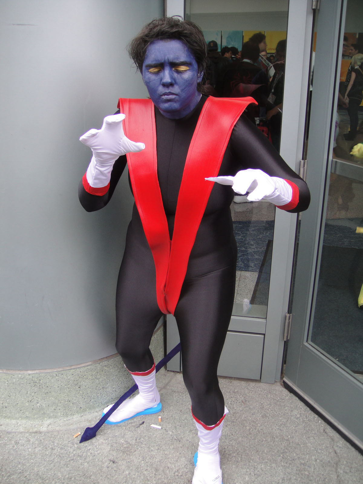 photo 2012 Pop Culture Geek taken by Doug Kline If you're interested in higher resolution versions of my images, contact me via my profile page.